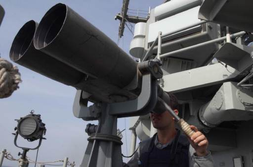 An officer aboard the HMAS Melbourne (FFG 05) looks through the ship’s binoculars (big eyes) while on bridge watch in Gulf of Oman, March 21, 2004. The Australian ship was participating in a Multilateral Undersea Warfare (USW) exercise conducted in the U.S. Naval Forces Central Command/ Commander Fifth Fleet area of responsibility. The exercise's objective is to promote Anti-Submarine Warfare (ASW) interoperability between the US, coalition, and multinational forces operating in the region. (U.S. Navy photo by Photographer's Mate 1st Class Alan D. Monyelle) (Released) Photo by: PH1 ALAN D. MONYELLE, FLEET COMBAT CAMERA GROUP PACIFI Record ID No. (VIRIN): 040321-N-9885M-002 From [1] [2]. (Larger image available at [3].)